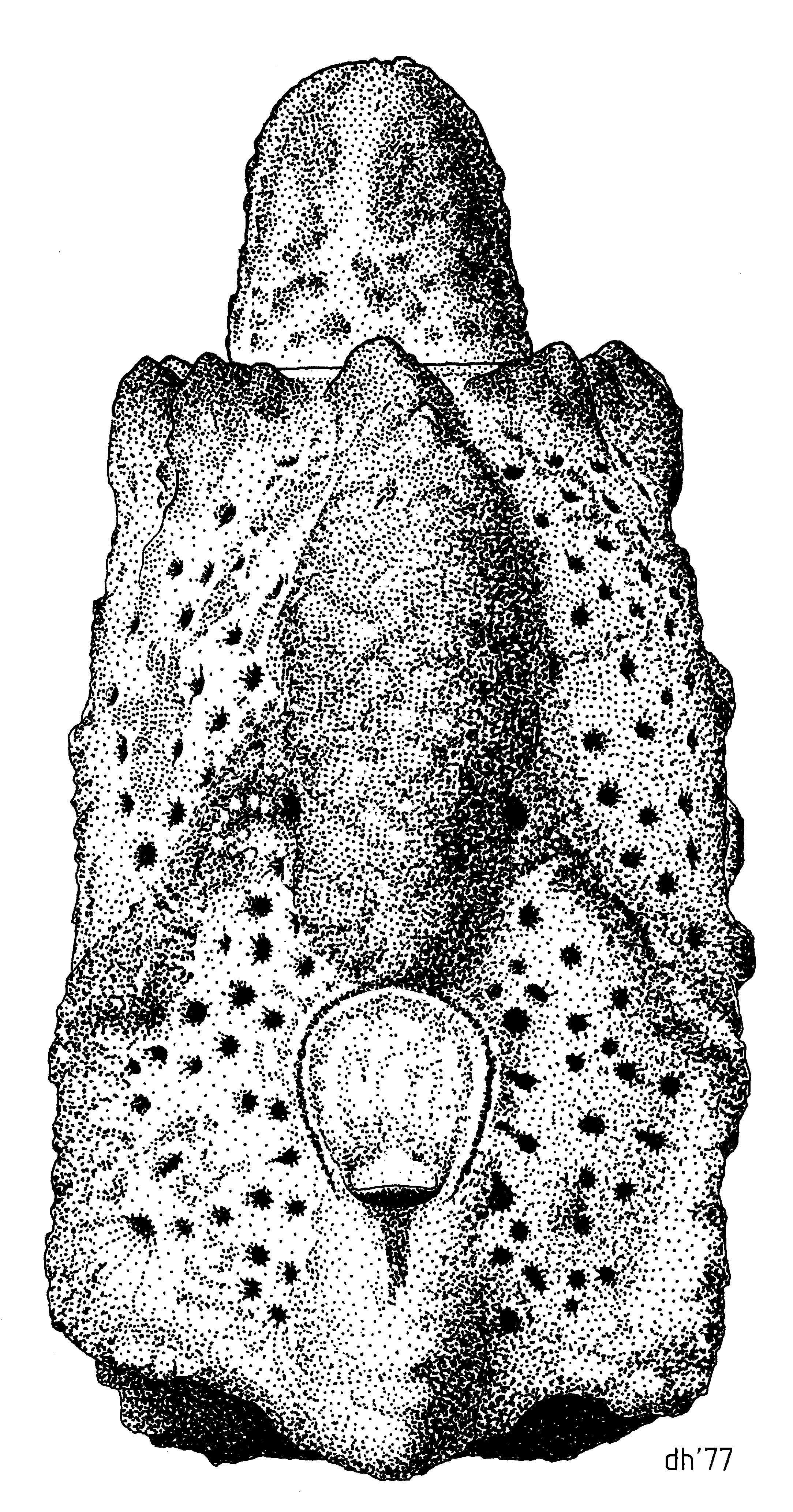 (Phasmatodea: Phasmidae) Acanthoxyla prasina egg illustrated by Des Helmore.